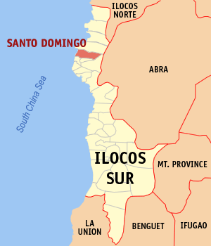 Map of Ilocos Sur showing the location of Santo Domingo